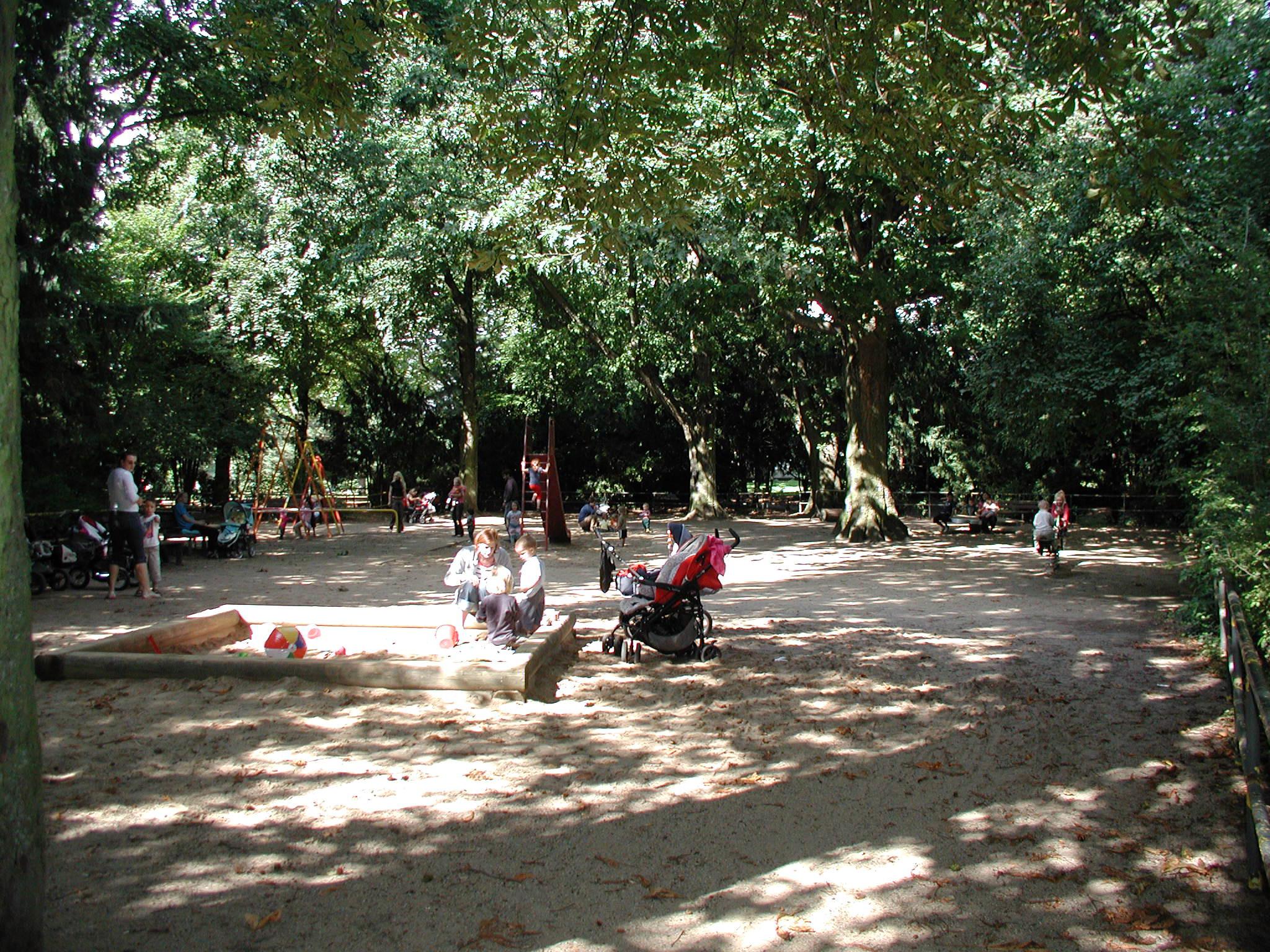 Cologne, children's playground